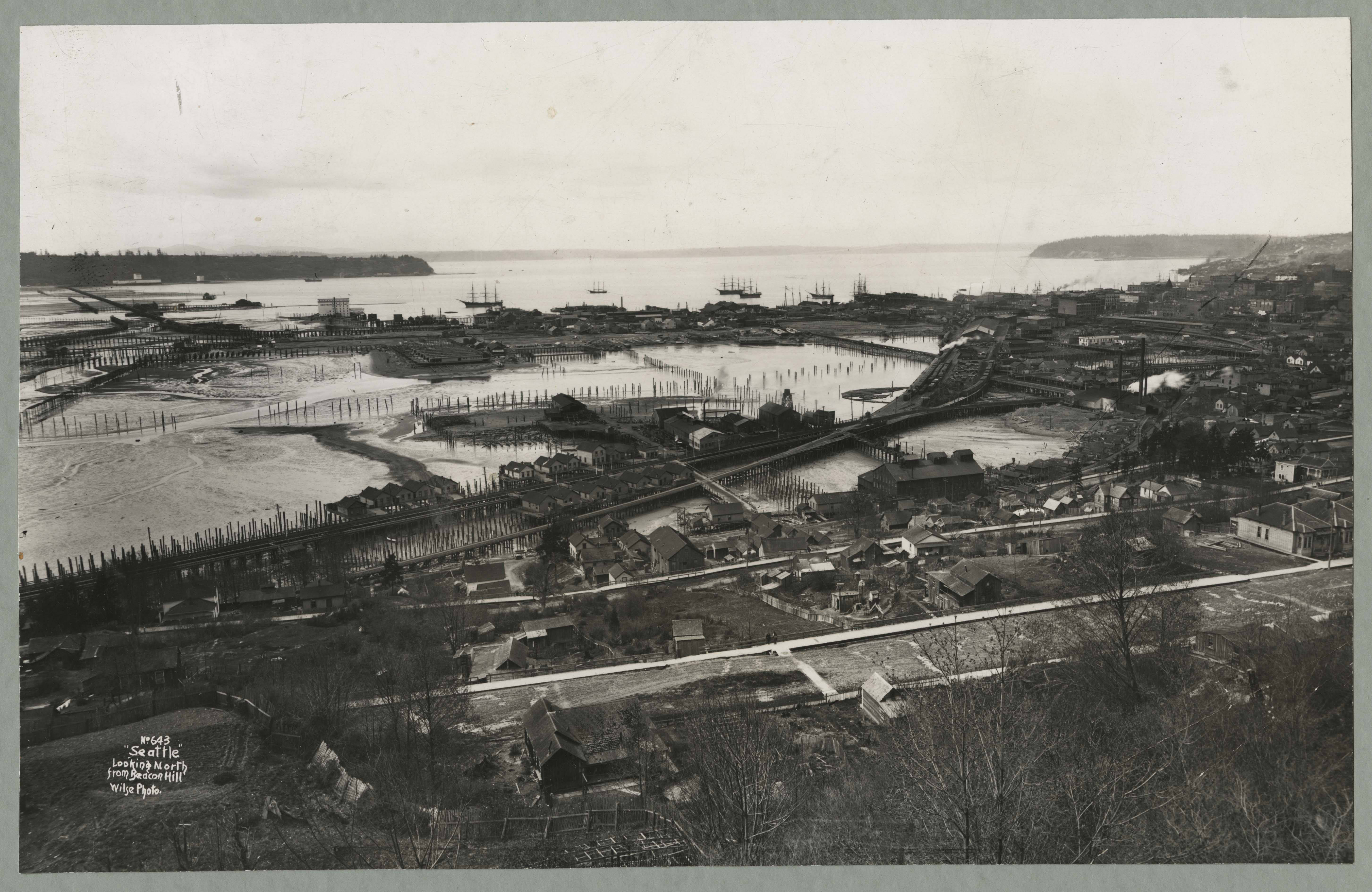 Transcribed from photograph: "Seattle Views. From Beacon Hill. ca. 1900. Looking north overlooking Grant Street Bridge. Photo by Wilse."